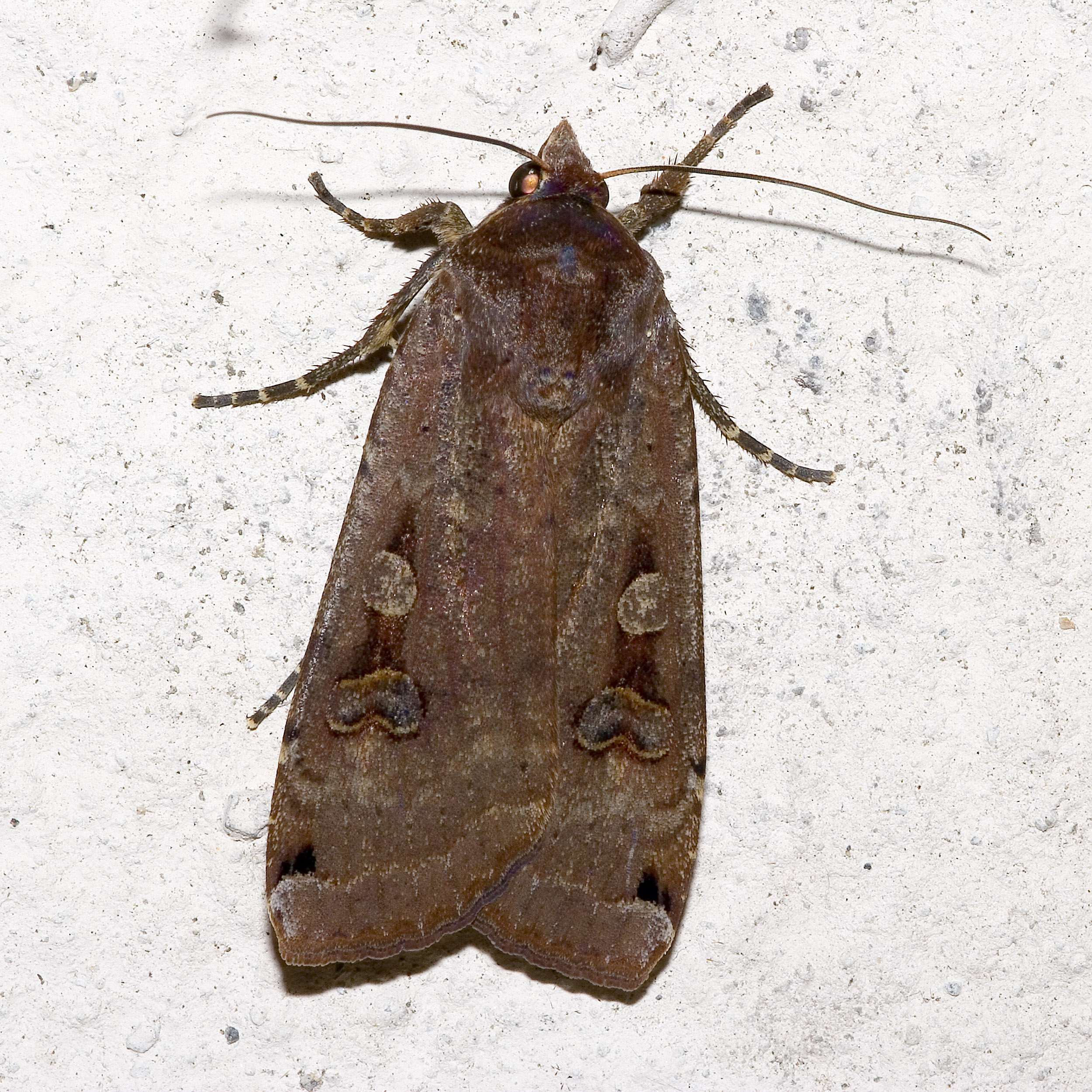 Please report references to .